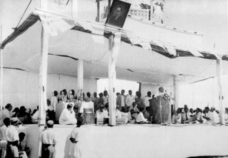 Dr. Babasaheb Ambedkar addressing his followers during 'Dhamma Deeksha' at Deekshabhoomi, Nagpur.